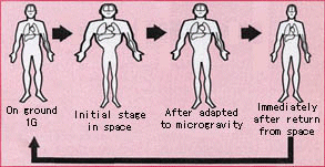 Image displaying fluid distribution in microgravity.